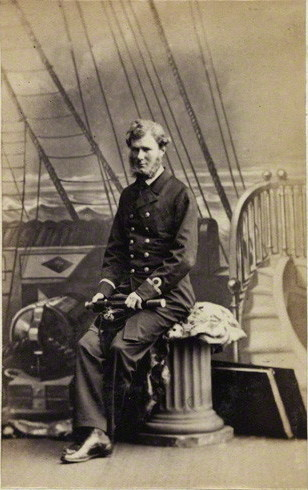 Edward Downes Law, 5th Baron Ellenborough, by Camille Silvy, albumen print, 22 October 1861